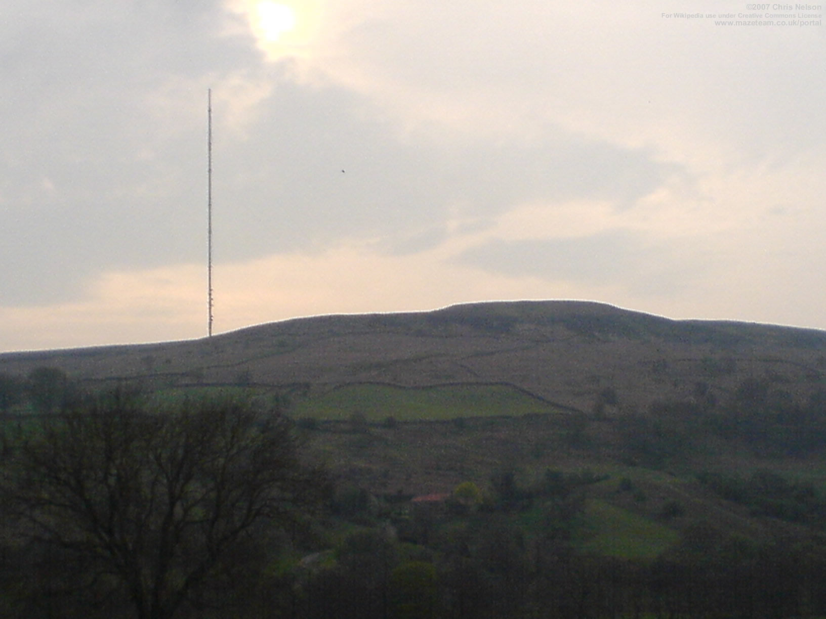 An early evening photo of the tubular steel Billsdale Moor TV mast, situated on Bilsdale west moor, in the North Yorkshire Moors National Park. signals from the mast cover teesside, tyne and wear (partly), east Yorkshire, and north Yorkshire. the mast can be seen from York about 30 miles to the south.